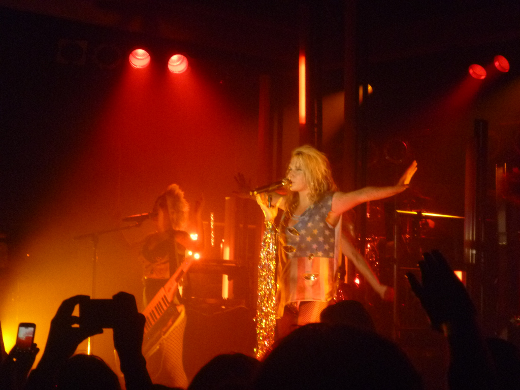 Kesha performing at Showbox SoDo in Seattle, Washington